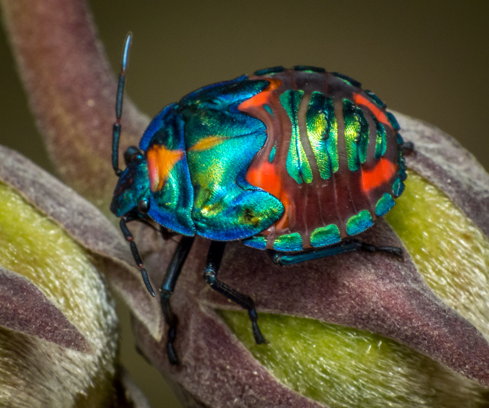 Didn't have any eggs to paint but I thought this bug might make up for it :) Cotton farmers don't like them though as they can be quite a pest.